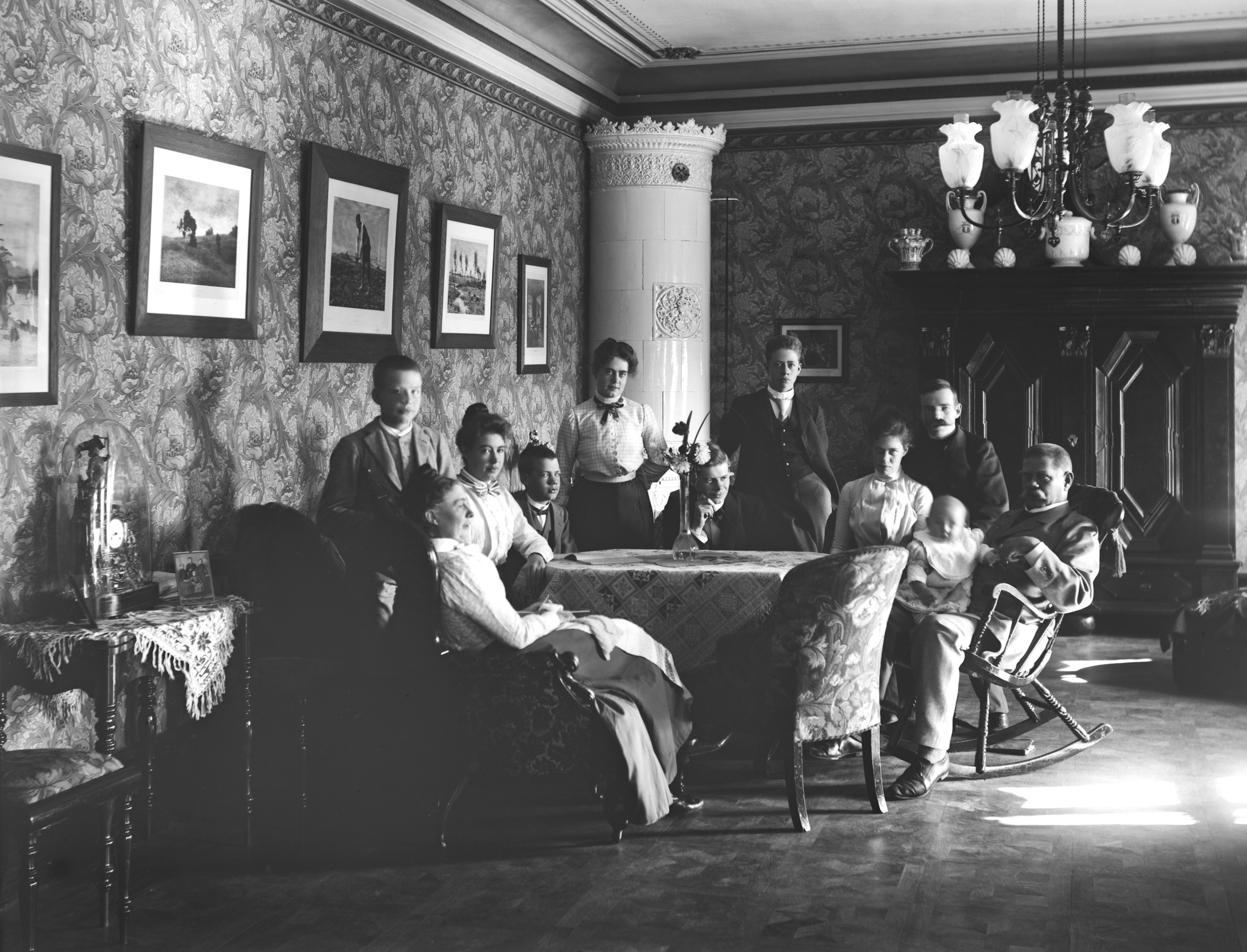 Hemma hos apotekare Viktor Undén på Kungsgatan 14 i Karlstad ca år 1900. Nr 4 från vänster, sonen Östen, fick en lång karriär som socialdemokratisk politiker bl a som utrikesminister i 2 perioder.